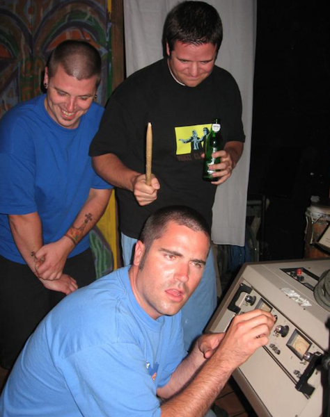 3rd Alley at Total Access Studios, Redondo Beach California, Zack Walters, Todd Elrod and Tyson Parrish